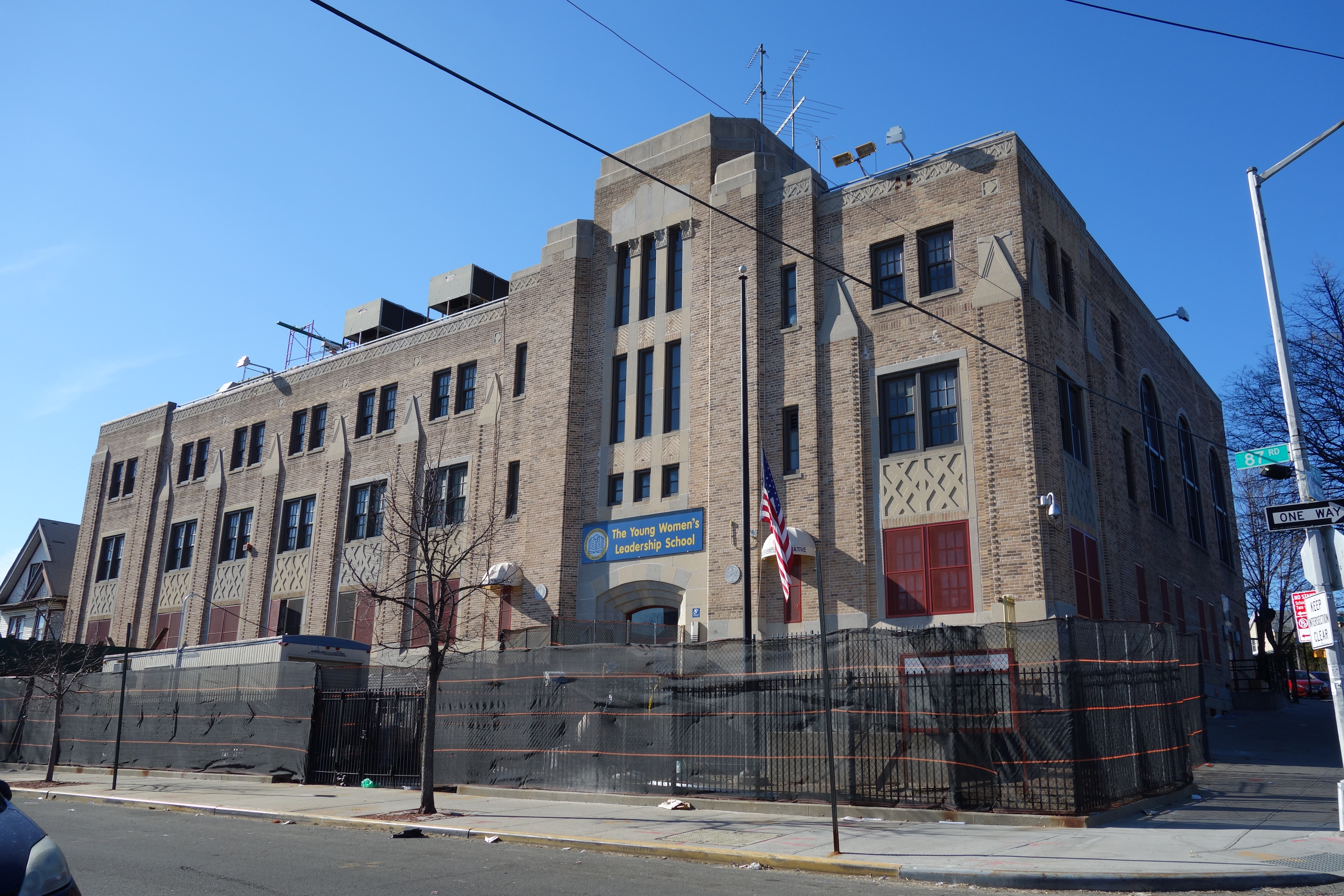 The former Jamaica Jewish Center, now used by The Young Women's Leadership School of Queens, at 87th Road and 155th Street just east of Parsons Boulevard and north of Hillside Avenue in Jamaica, Queens. The community center was previously home to Queens Gateway to Health Sciences Secondary School, which moved to a new building on the Queens Hospital Center campus in 2010.